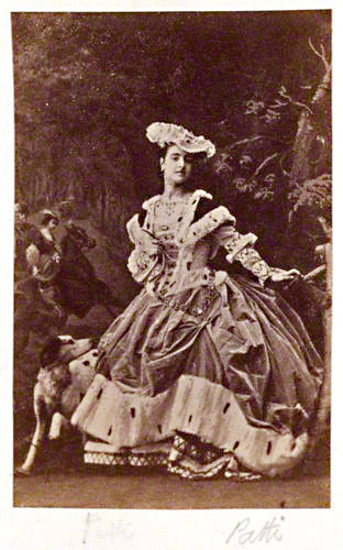 Adelina Patti as Harriet in the opera Martha by Friedrich von Flotow as photographed by Camille Silvy